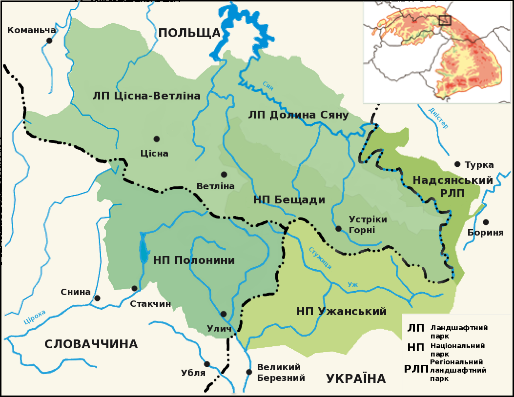 Map of the East Carpathian Biosphere Reserve (uk)